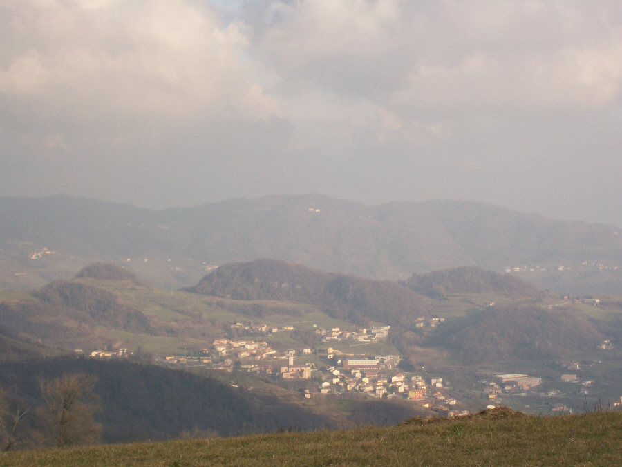 View Vestenanova